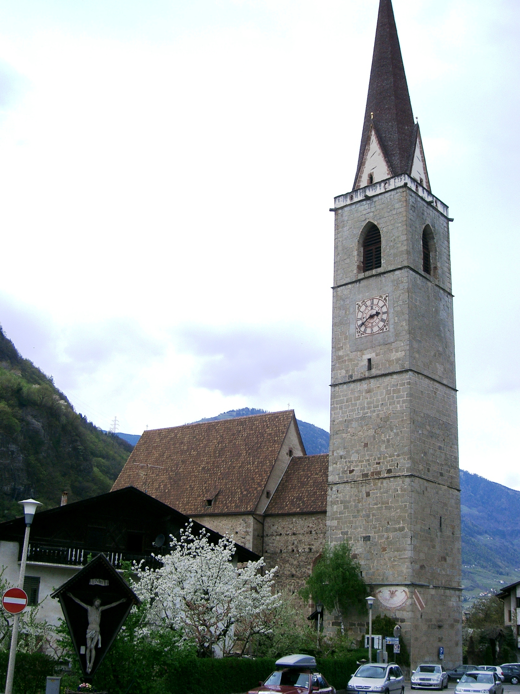 Niederlana, Italy. Parish church.